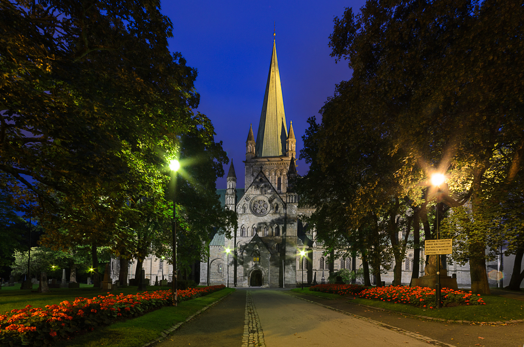 Nidaros Cathedral photographed at blue hourNorsk bokmål: Nidaros Cathedral fotografert i "den blå timen"